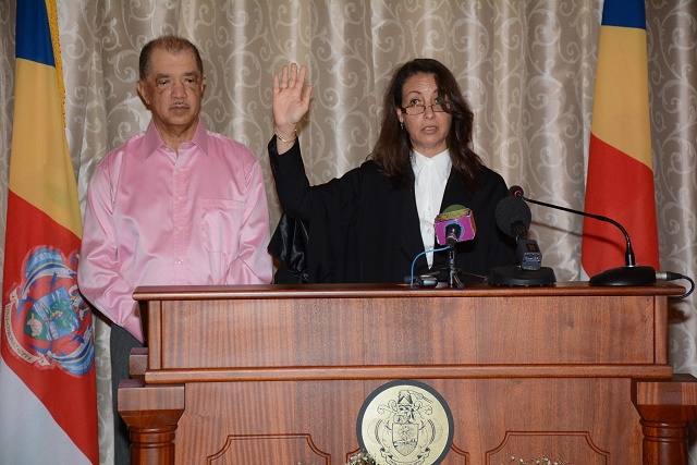 The President of Seychelles James Michel and the Chief Justice of the Supreme Court of Seychelles Mathilda Twomey.